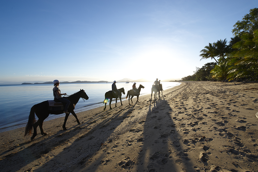 horseriding on the beach